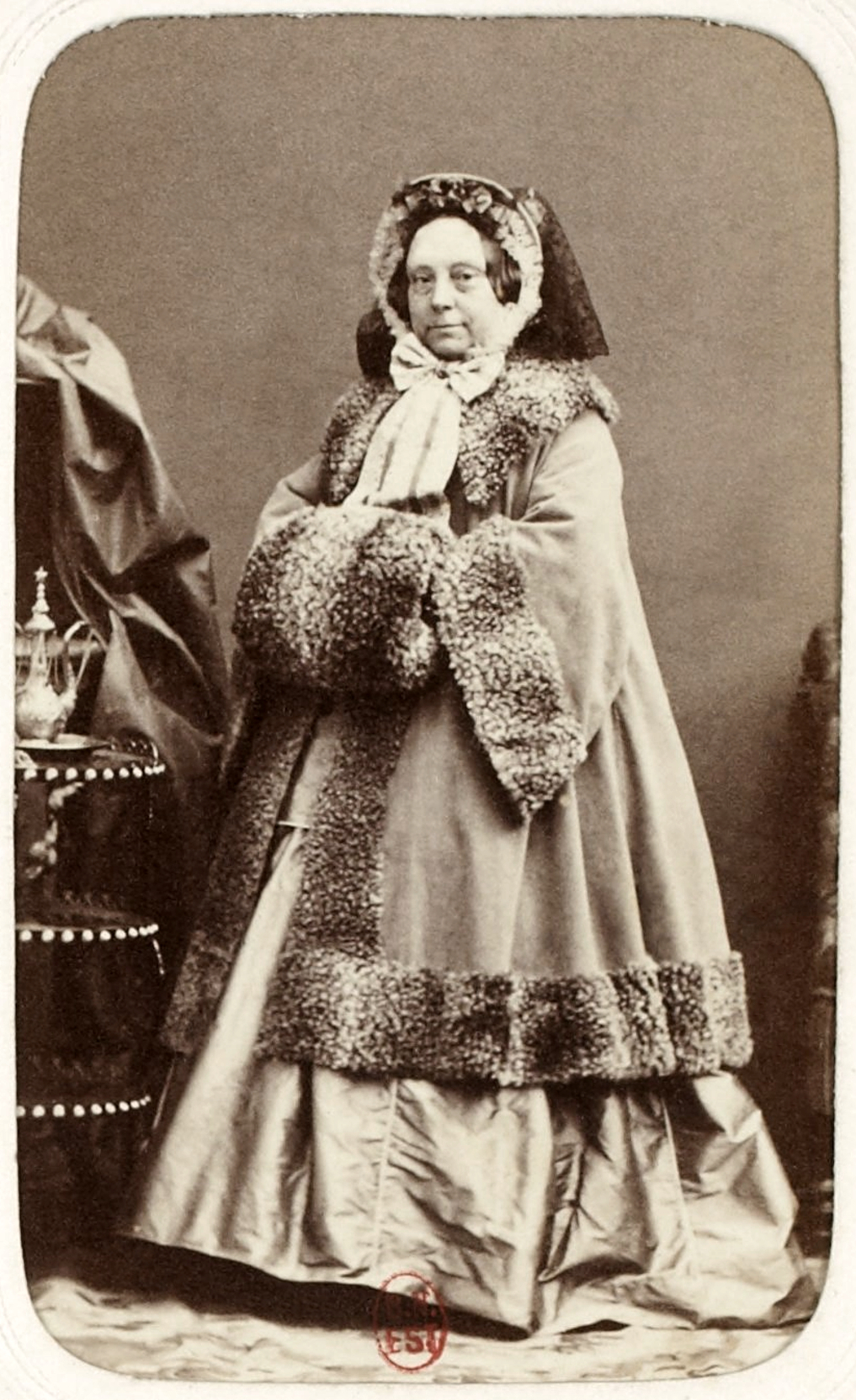 Countess Dash (Gabrielle Anne Cisterne Vicomtesse Poilloüe de Saint-Mars) (1804 - 1872), french writer.